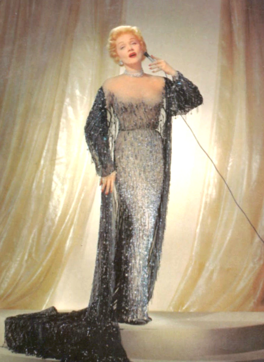 Postcard photo of Marlene Dietrich promoting her performance at Las Vegas' Sahara hotel. The dress she's wearing was referred to as the "nude dress" because it gave the illusion that Dietrich was wearing a very thin gown and nothing underneath it. The engagement there was in 1953 and she was paid $30,000 a week, the equivalent of $279,000 (rounded) a week in 2018, a very substantial rate for a performer at the time, and now as well.